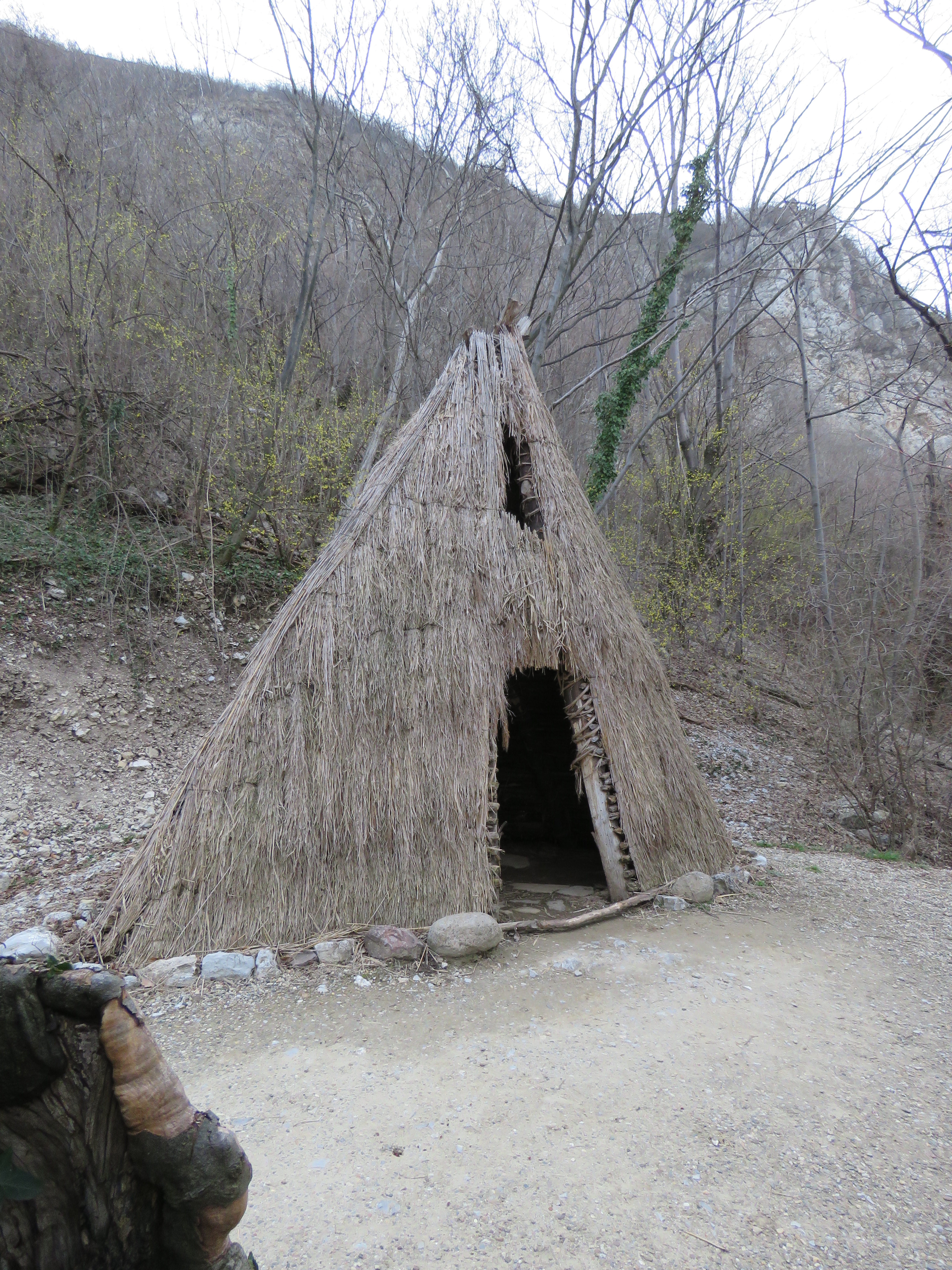 Museum Lepenski Vir, reconstruction of the ancient houses